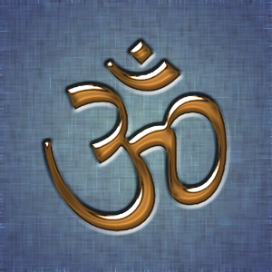 Author=me